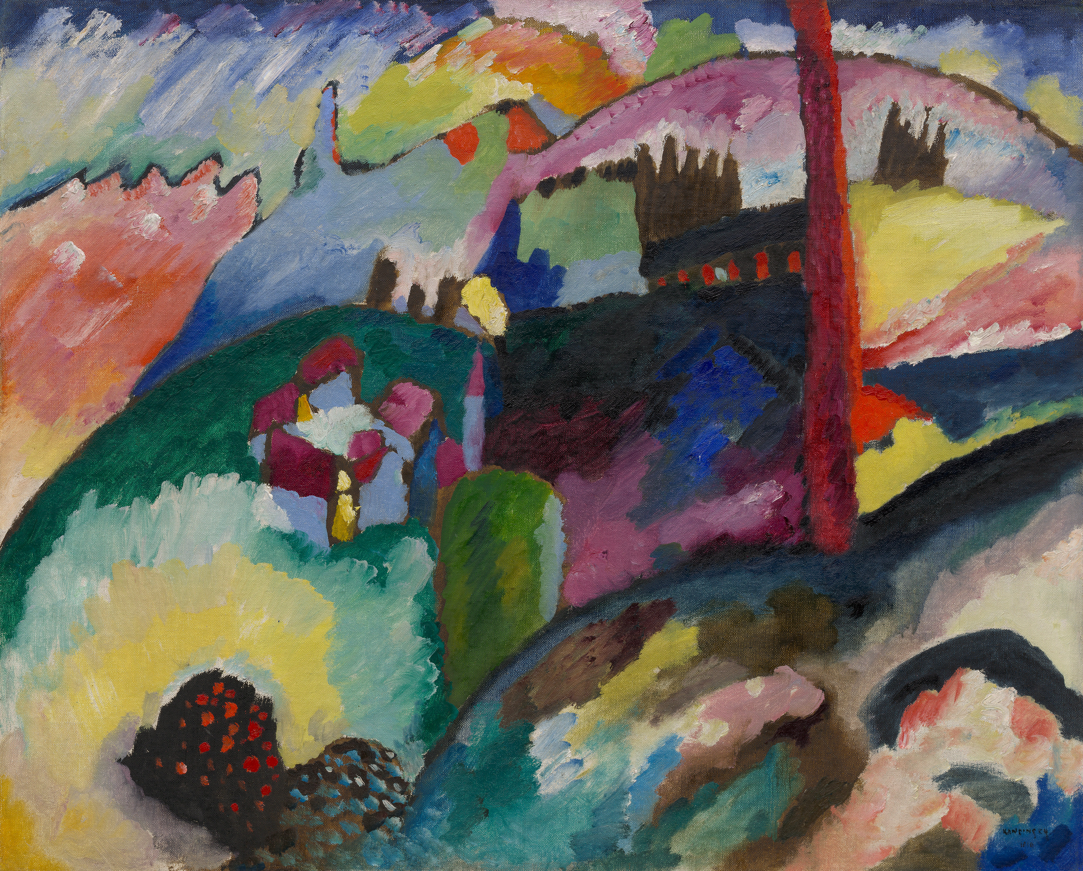 Landscape with Factory Chimney (Landschaft mit Fabrikschornstein)